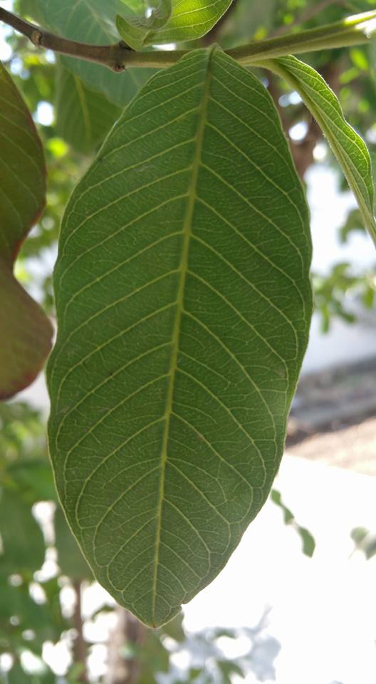 Image of Guava plant tree